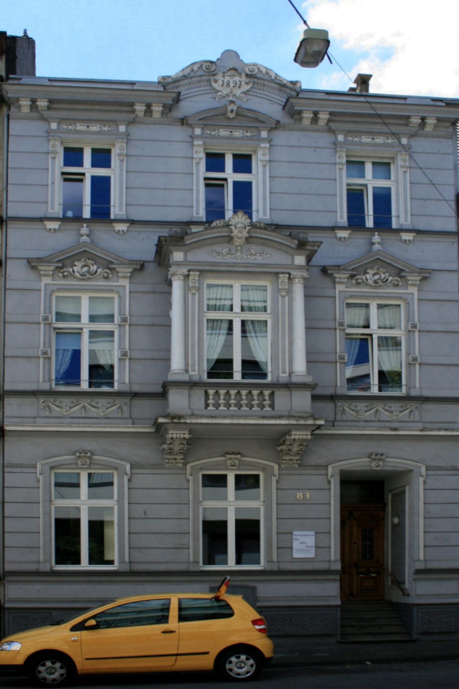 Cultural heritage monument No. Sch 049 in Mönchengladbach